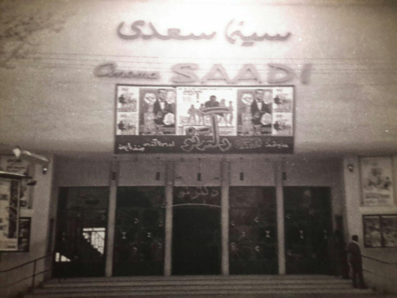 cinema saadi shiraz